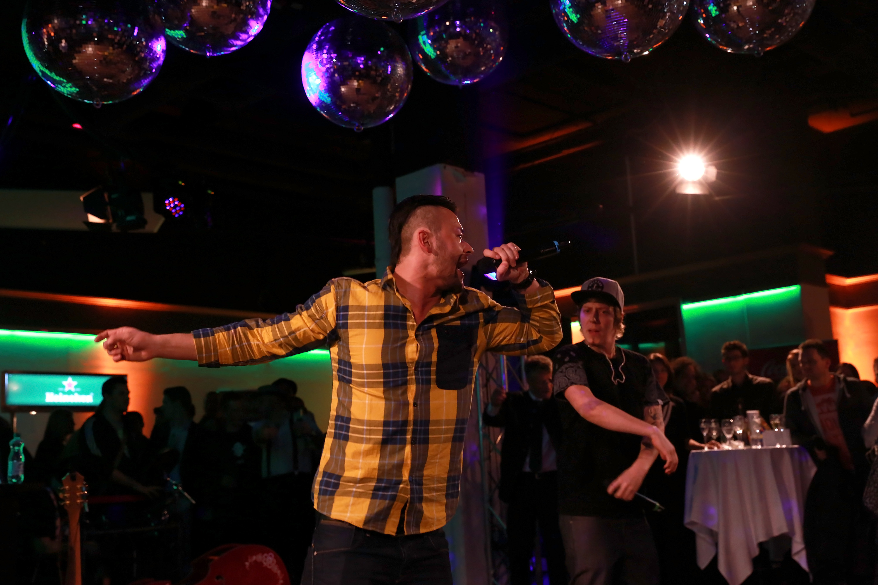 Trackshittaz performing at the party at the premiere for Rise Up! And Dance, UCI Kinowelt Millennium City in Vienna.